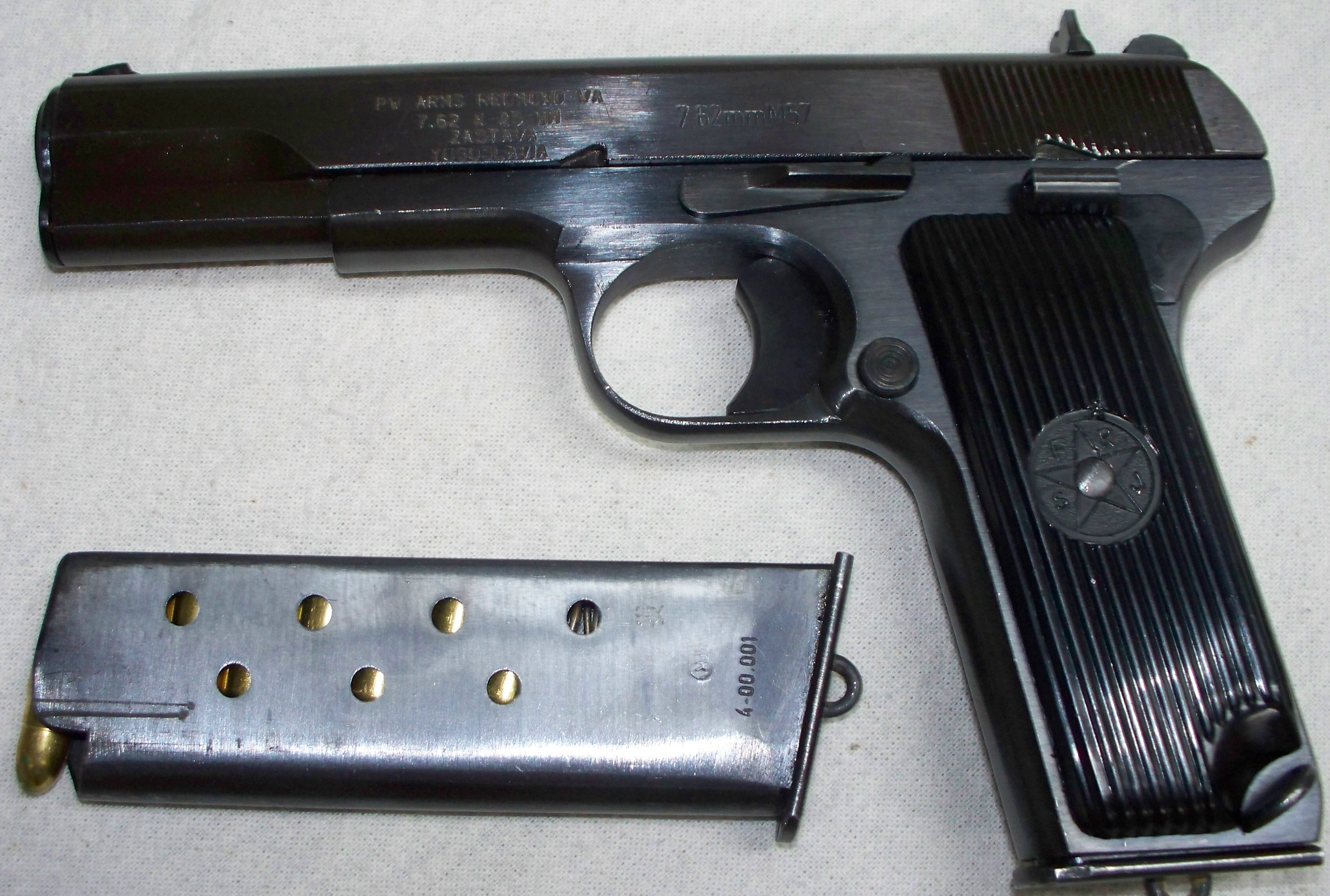 Yugoslavian M57 Pistol